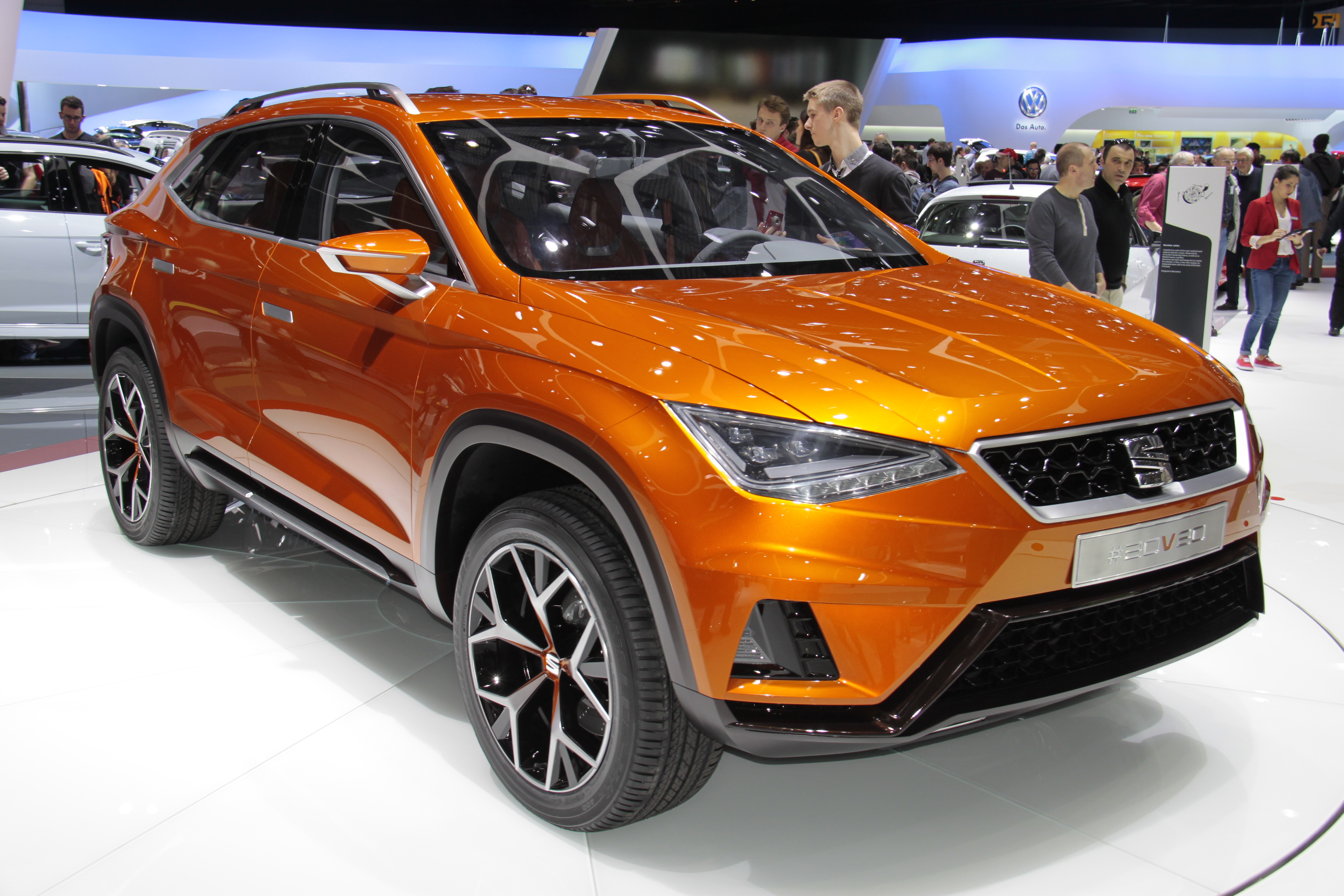 SEAT 20V20 Concept car at the 2015 Geneva Motorshow